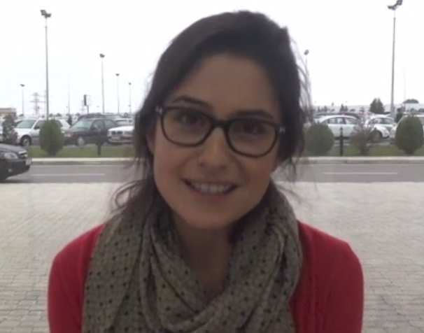 Arzu Geybullayeva is an Azerbaijani columnist, blogger, and journalist for several newspapers and media news outlets including Al Jazeera, Foreign Policy, Global Voices, and Agos. She has also worked with several non-profit organizations and think-thanks including the National Democratic Institute and European Stability Initiative. She advocates a peaceful resolution among Armenians and Azerbaijanis over the Karabakh conflict. However, in recent years, she has received various threats mainly stemming from Azerbaijan due to her work with Agos, an Armenian newspaper. The threats were internationally condemned by various human rights organizations. Geybullayeva currently lives in a self-imposed exile in Turkey